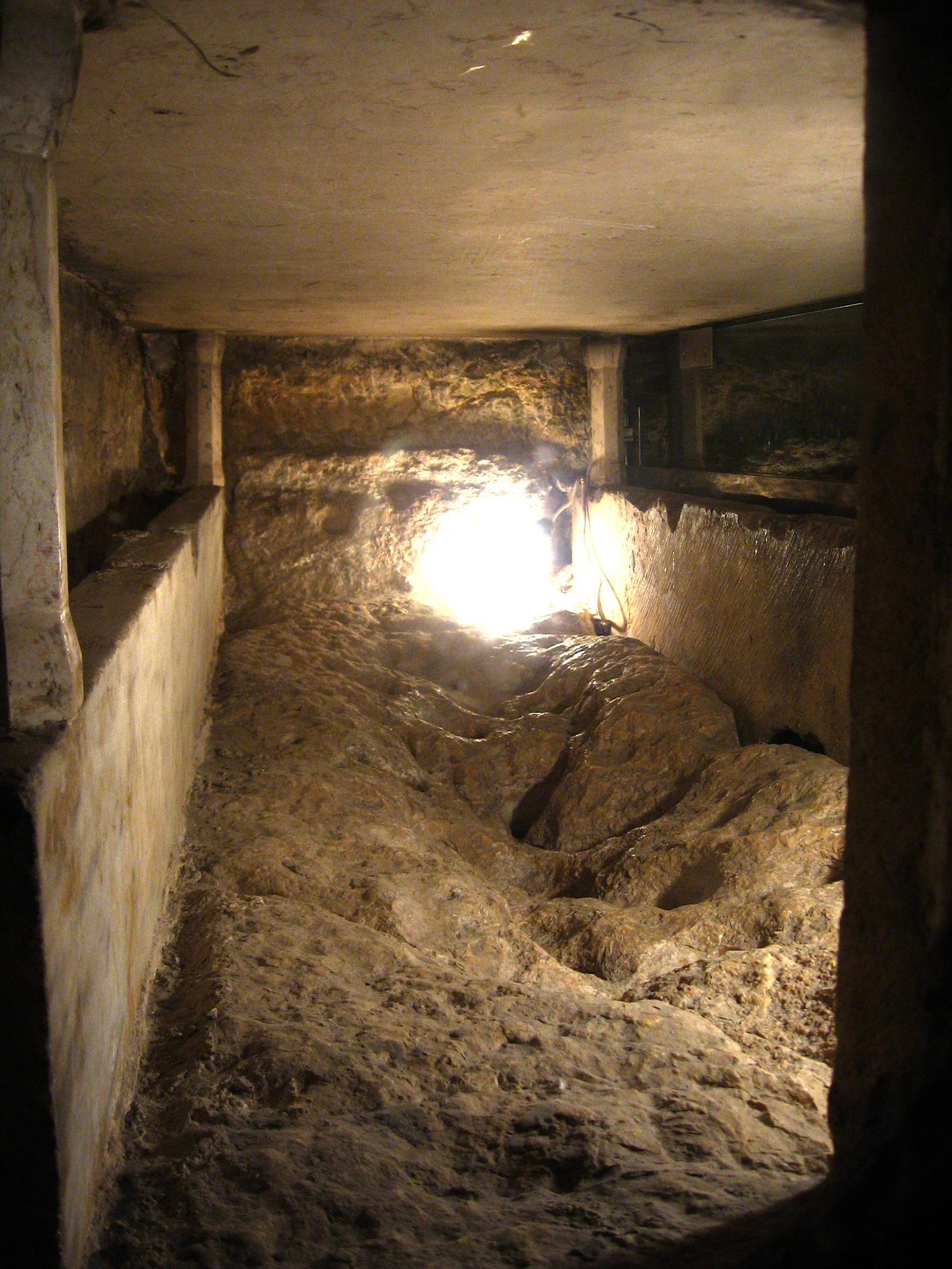 Virgin Mary's sarcophagus, inside the Church of Mary's Tomb, Mount of Olives, Jerusalem.